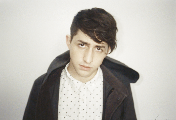 Profile picture of Porter Robinson in 2014